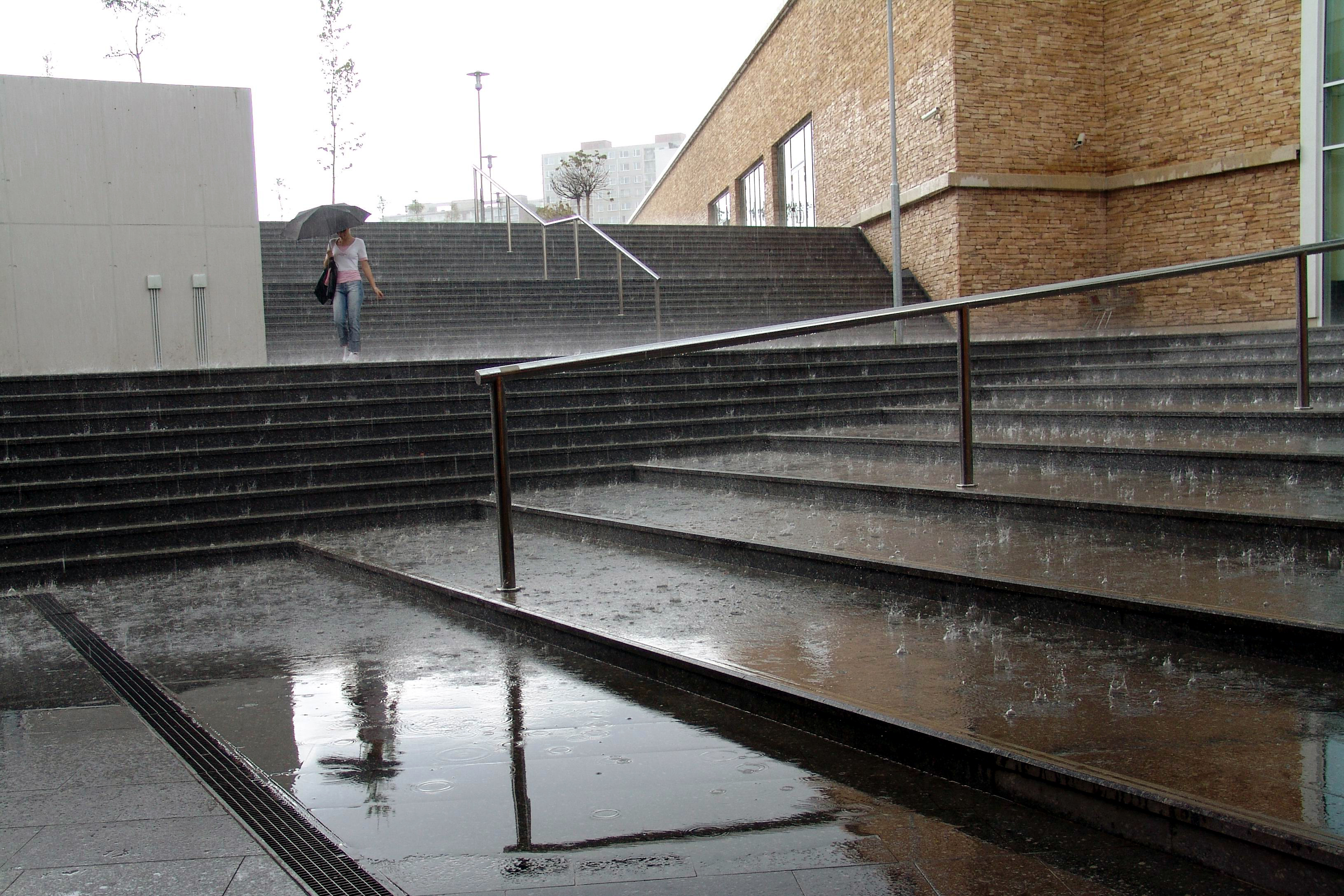 Sudden heavy rain in Prague - Chodov